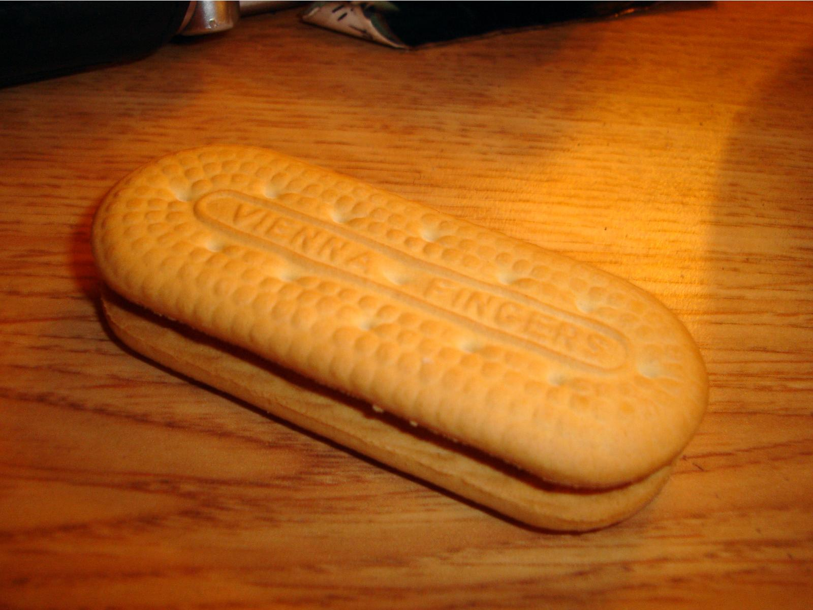 These are delectable vienna fingers.